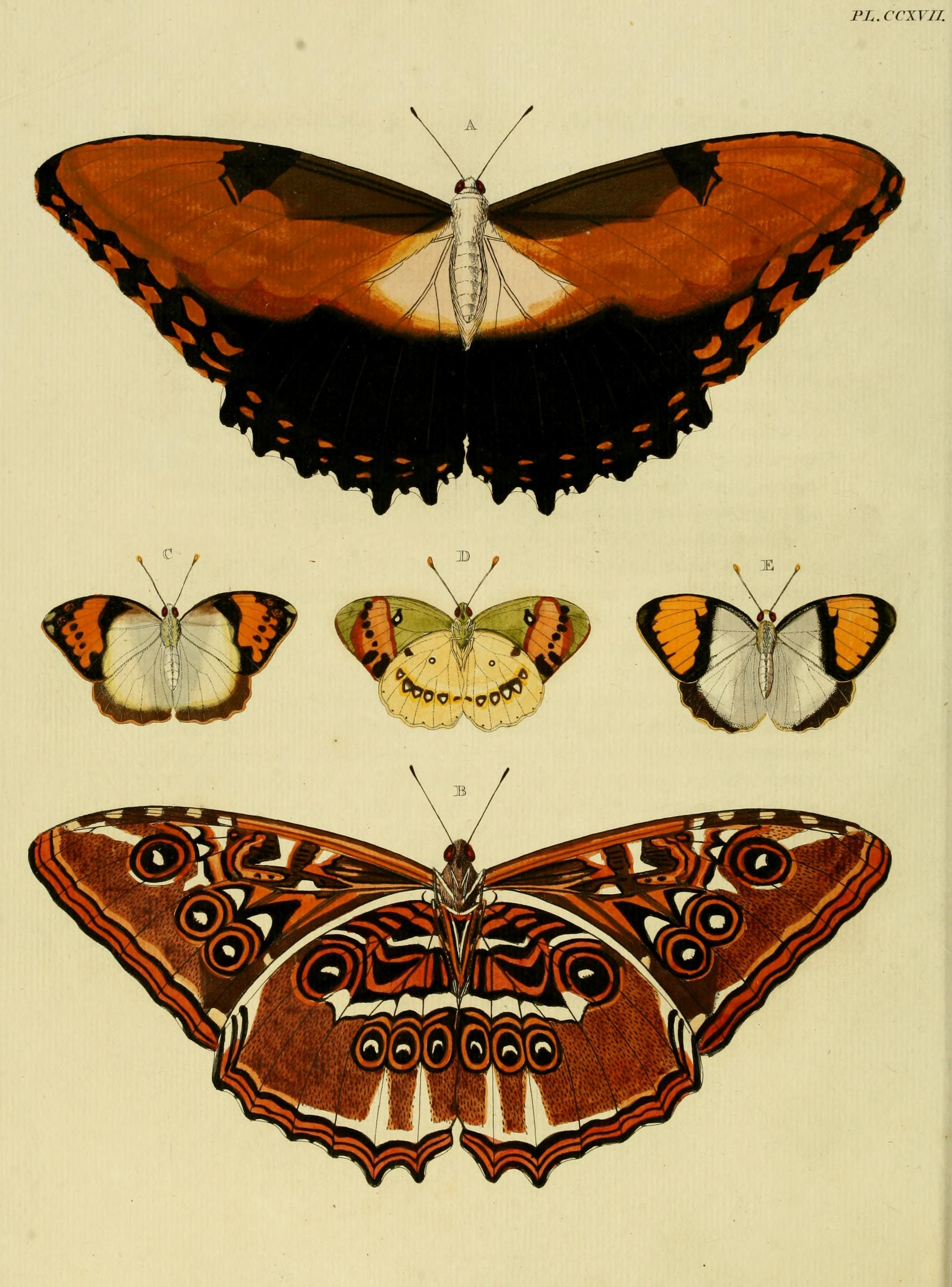 Plate CCXVII A, B: "(Papilio) Hecuba" ( = Morpho hecuba (Linnaeus, 1771)), see Funet. C, D (♀), E (♂): "(Papilio) Marianne" ( = Ixias marianne (Cramer, [1779]), iconotype?), see Funet.